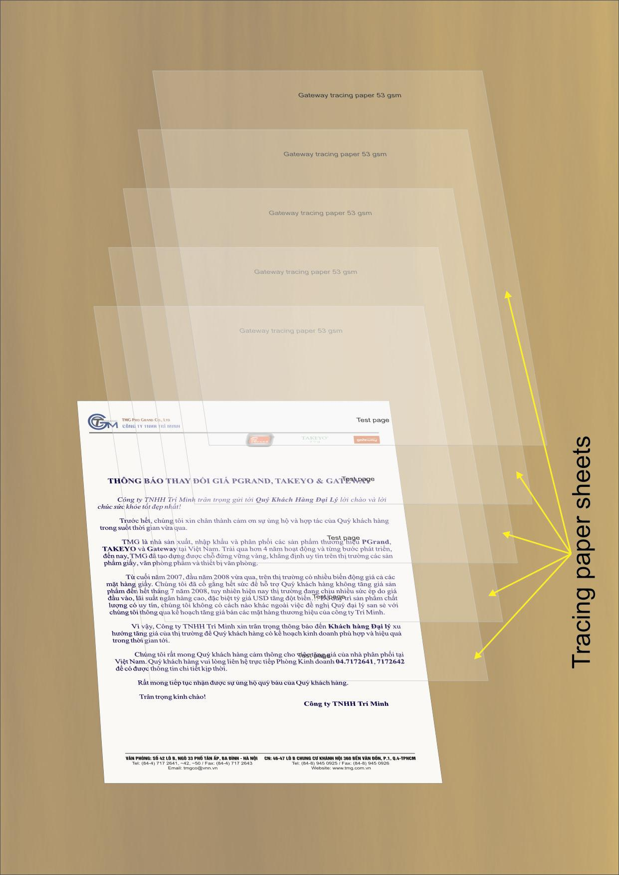 Transparent of tracing paper